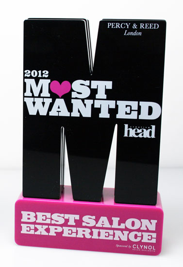 Most Wanted Award by Midton Acrylics